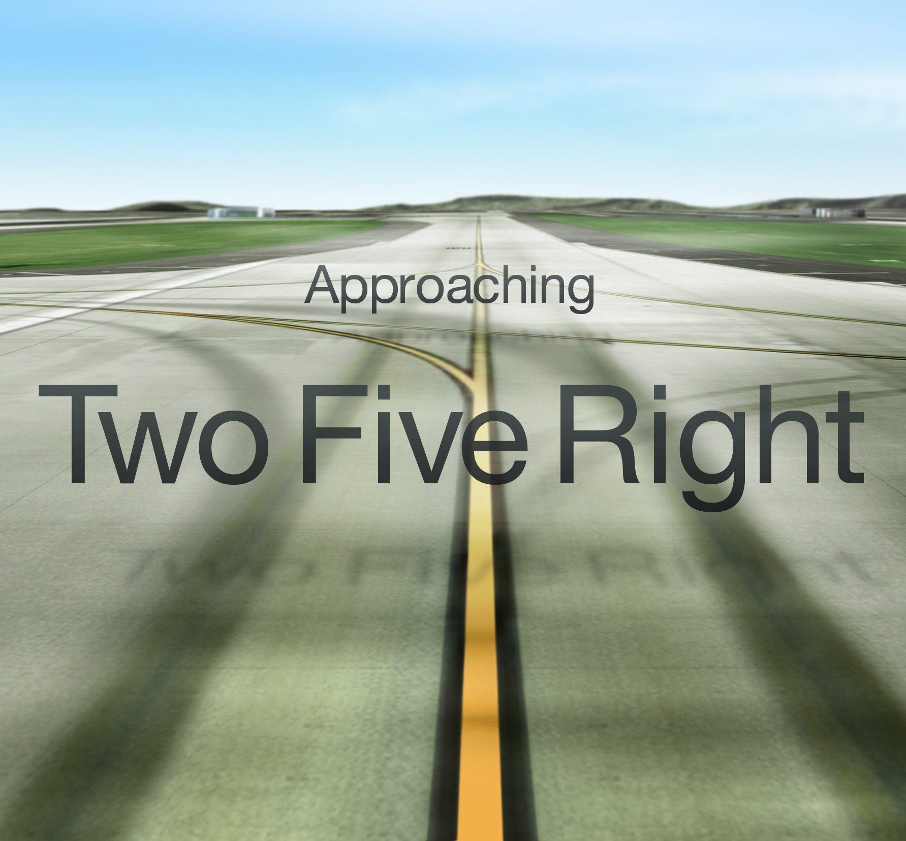 An image of Honeywell's "SmartRunway" digital view of the runway for pilots.